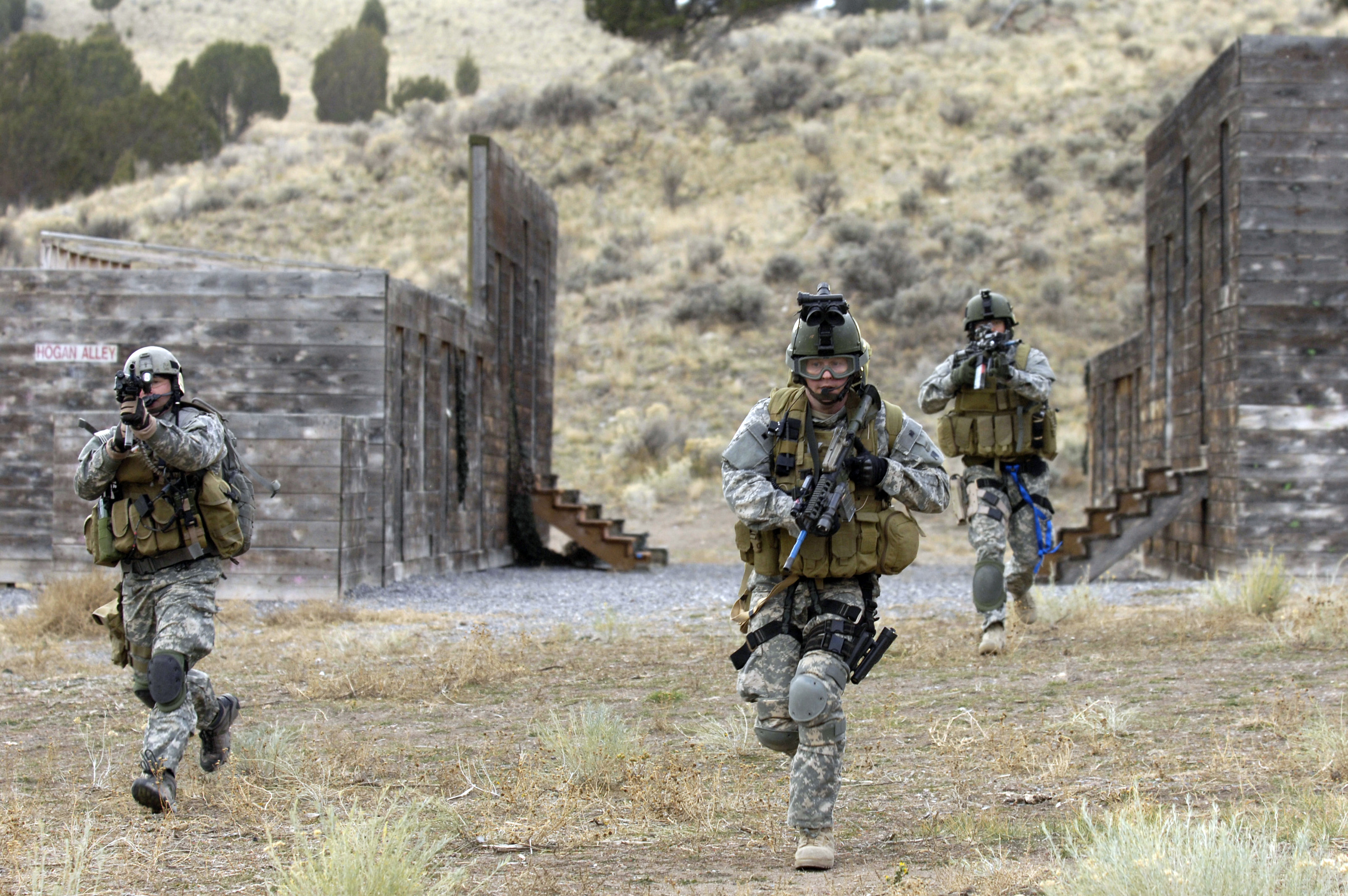 U.S. Army Soldiers from the 19th Special Forces, Utah National Guard conduct an urban village assault Nov. 13, 2007, at Camp Williams, Utah, during an extraction of a simulated downed pilot as a part of a Combat Search and Rescue (CSAR) Integration exercise. The training was given by Airmen from the 34th Weapons Squadron, United States Air Force Weapons School out of Nellis Air Force Base, Nev. The exercise\'s objective was to expand expertise and integration with Utah\'s 211th Aviation Group AH-64 Apache Joint Rotary Wing, 4th Fighter Squadron F-16 Fighting Falcon Striker assets, 19th Special Operations Forces, and conduct extensive joint CSAR operations against surface to air threats. (U.S. Air Force photo by Master Sgt. Kevin J. Gruenwald)